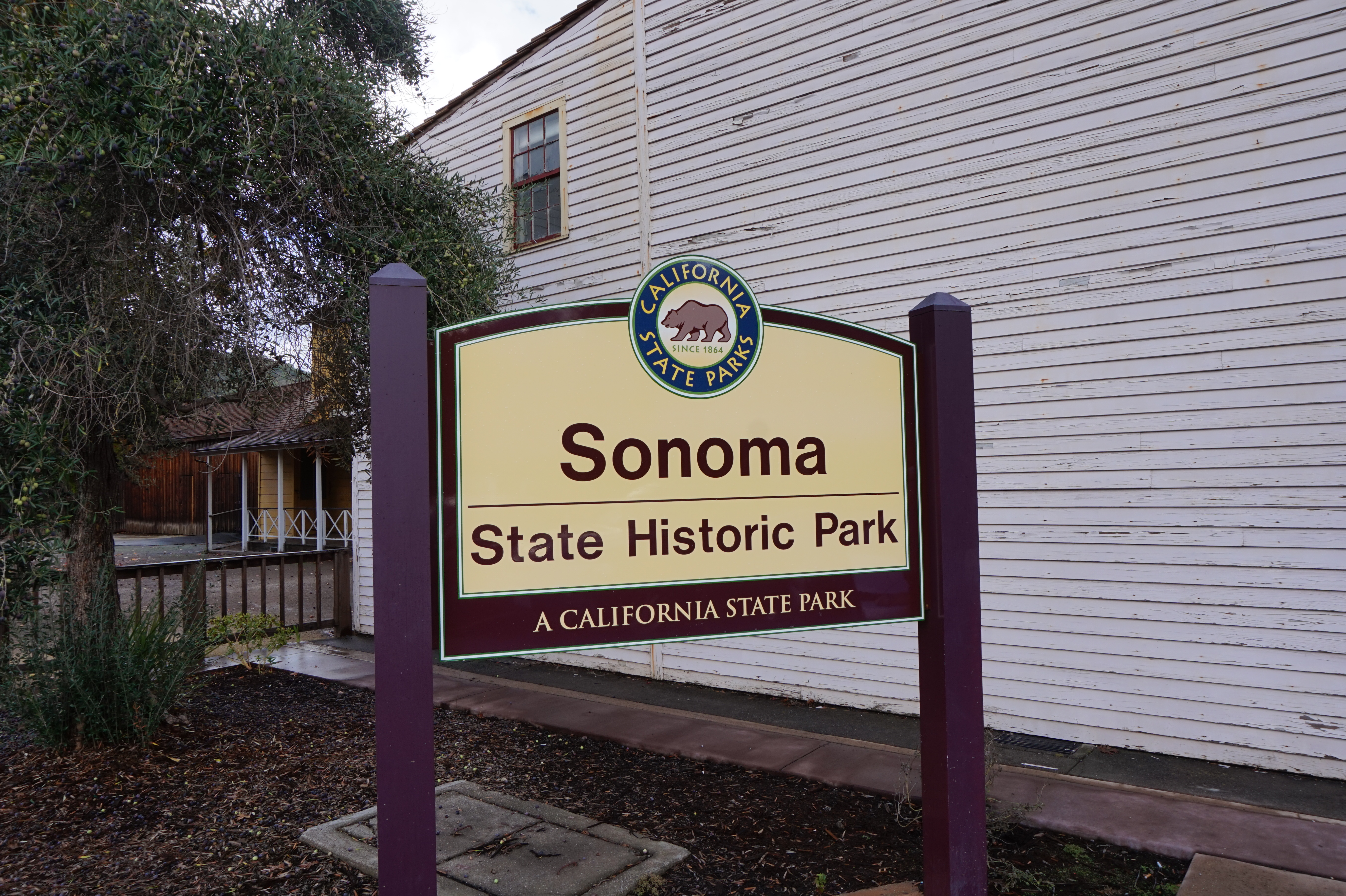 sonoma state park